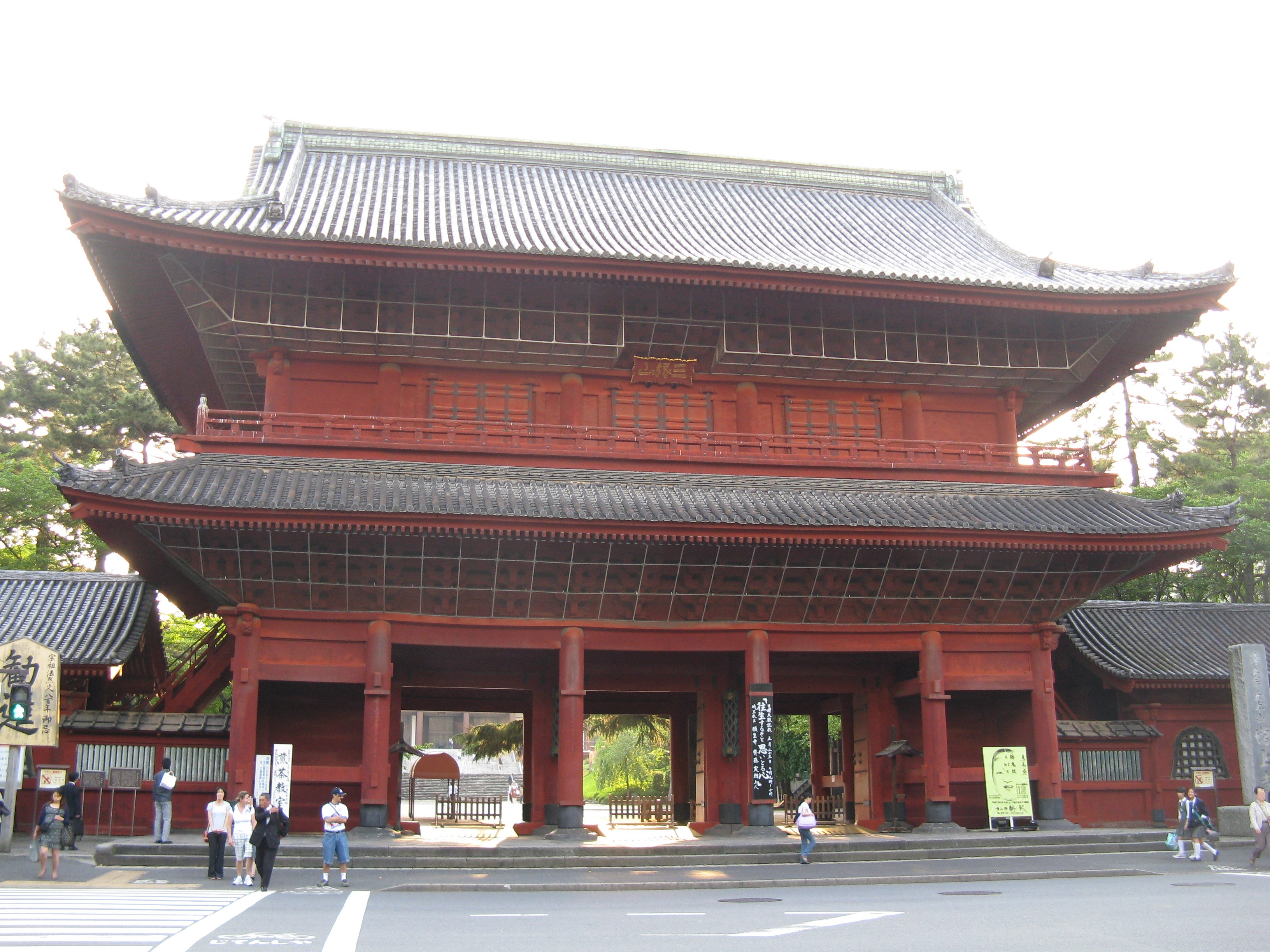 Sangedatsumon (Sanmon) Gate of Zōjō-ji temple in Minato-ku, Tokyo, Japan.